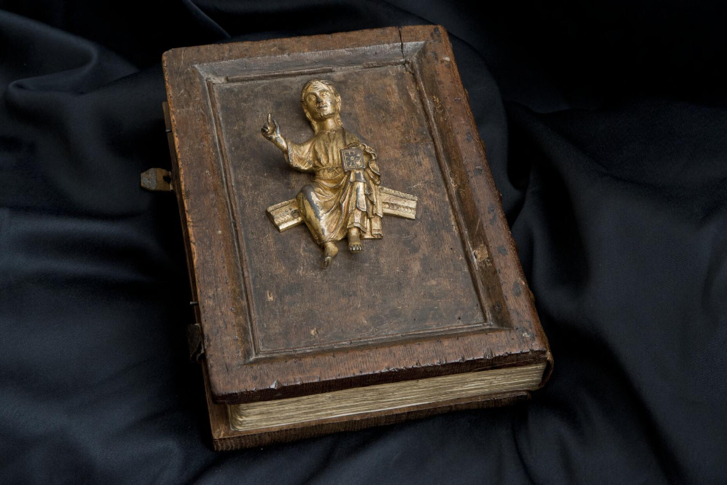 Binding of Liber Landavensis with figurehead. The volume contains the Gospel of St Matthew and a compilation, [c. 1120 - c. 1134], of copies of charters, saints' Lives and other records and literary material relating to the medieval diocese of Llandaf.